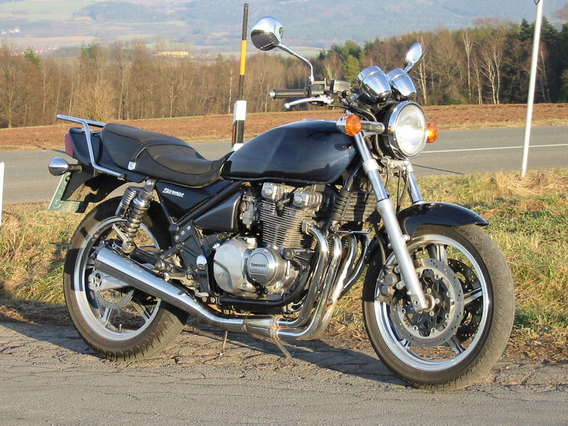 Photo of a Kawasaki Zephyr 550 Motorcycle